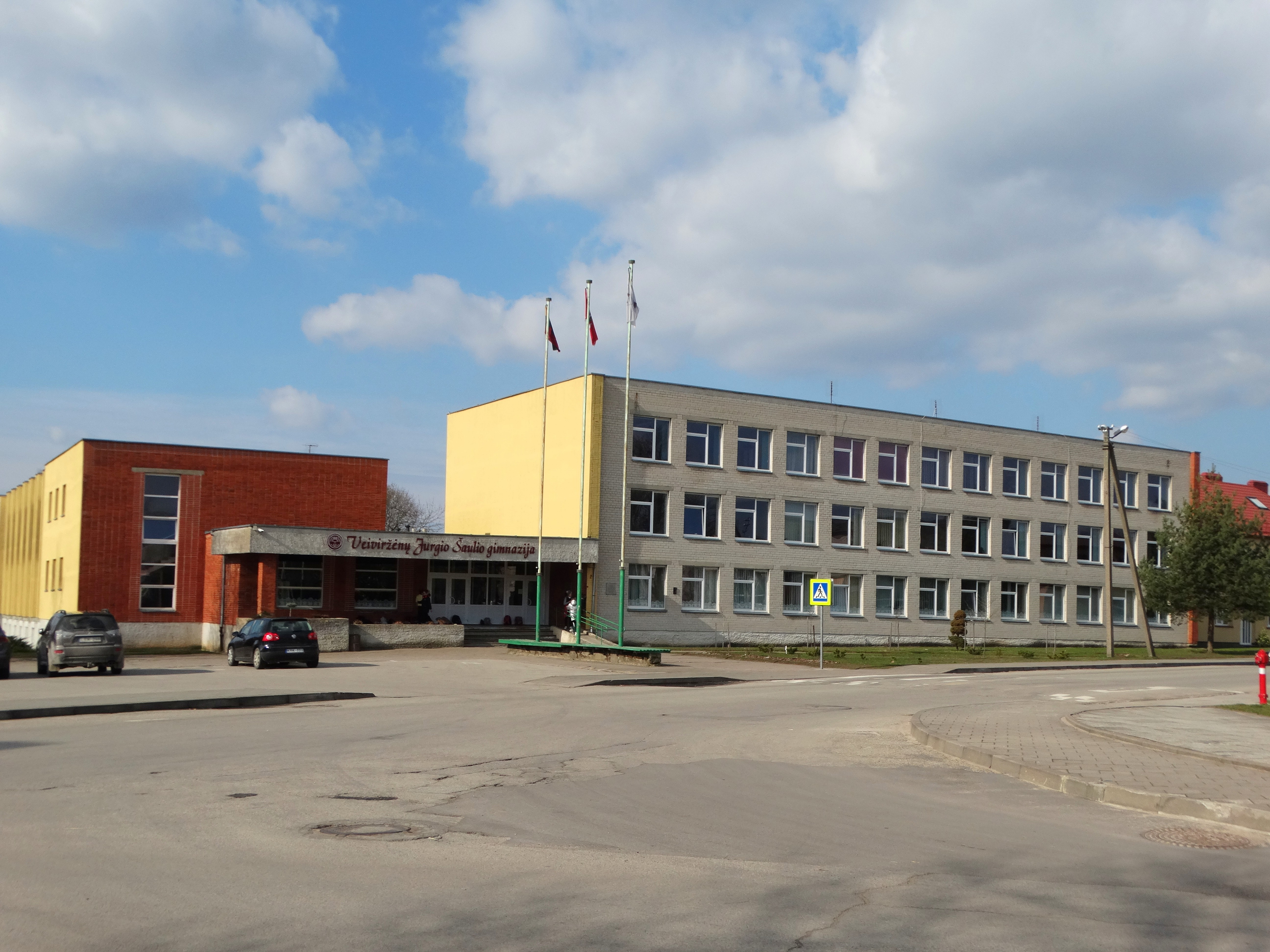 Gymnasium, Veiviržėnai, Klaipėda District, Lithuania